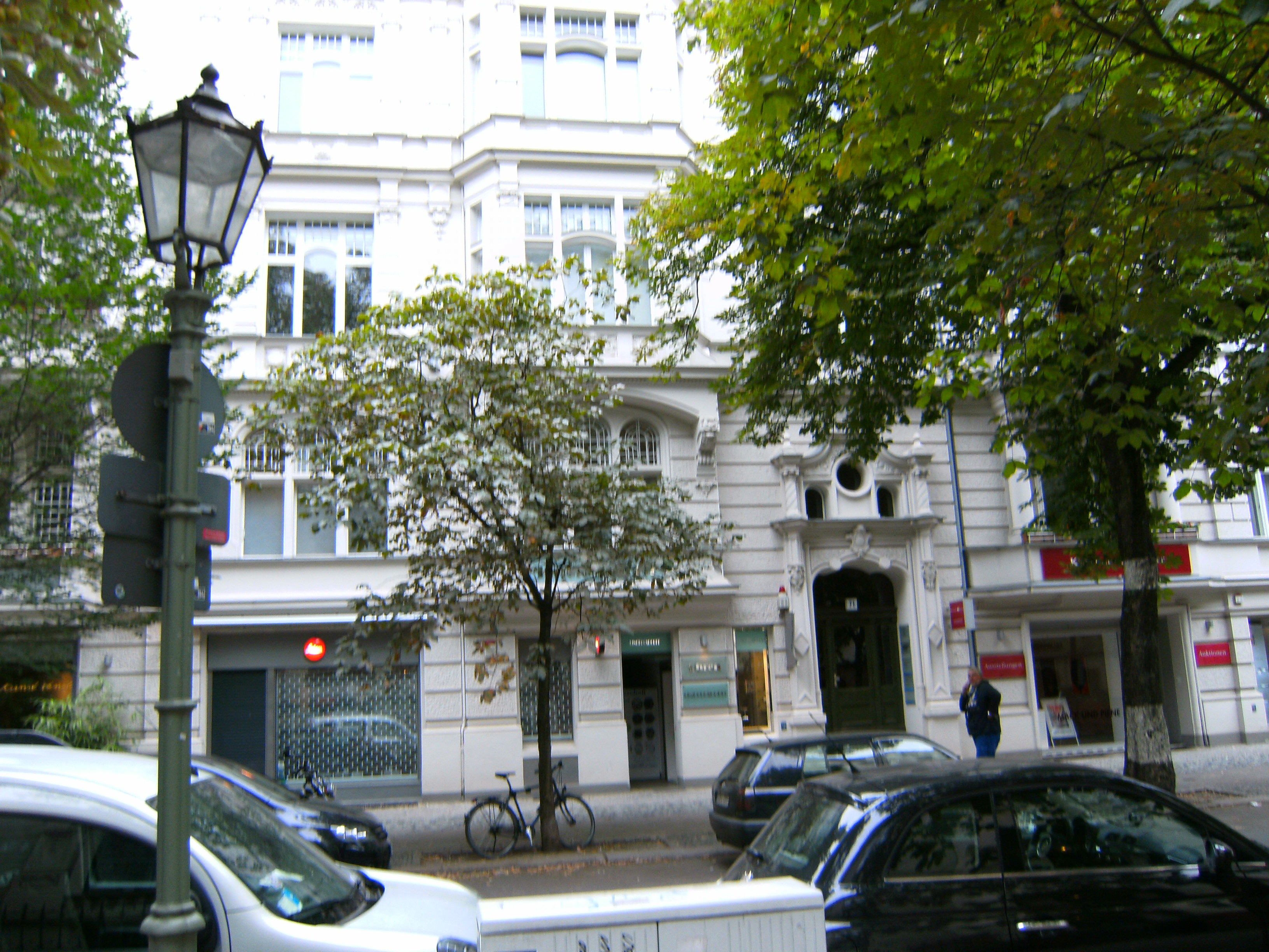 Fasanenstraße 71 in Berlin-Charlottenburg. A house with remarkable stairways.